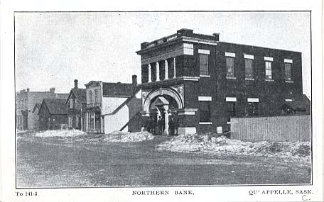 Postcard views of the Qu'Appelle Valley Northern Bank, Qu'Appelle remains standing, albeit abandoned; all other buildings in the photos are now gone. Northern Bank on the east side of Main Street, from 1925 the Royal Bank of Canada, now long-closed. All buildings to the north of the bank in the photo are now gone.